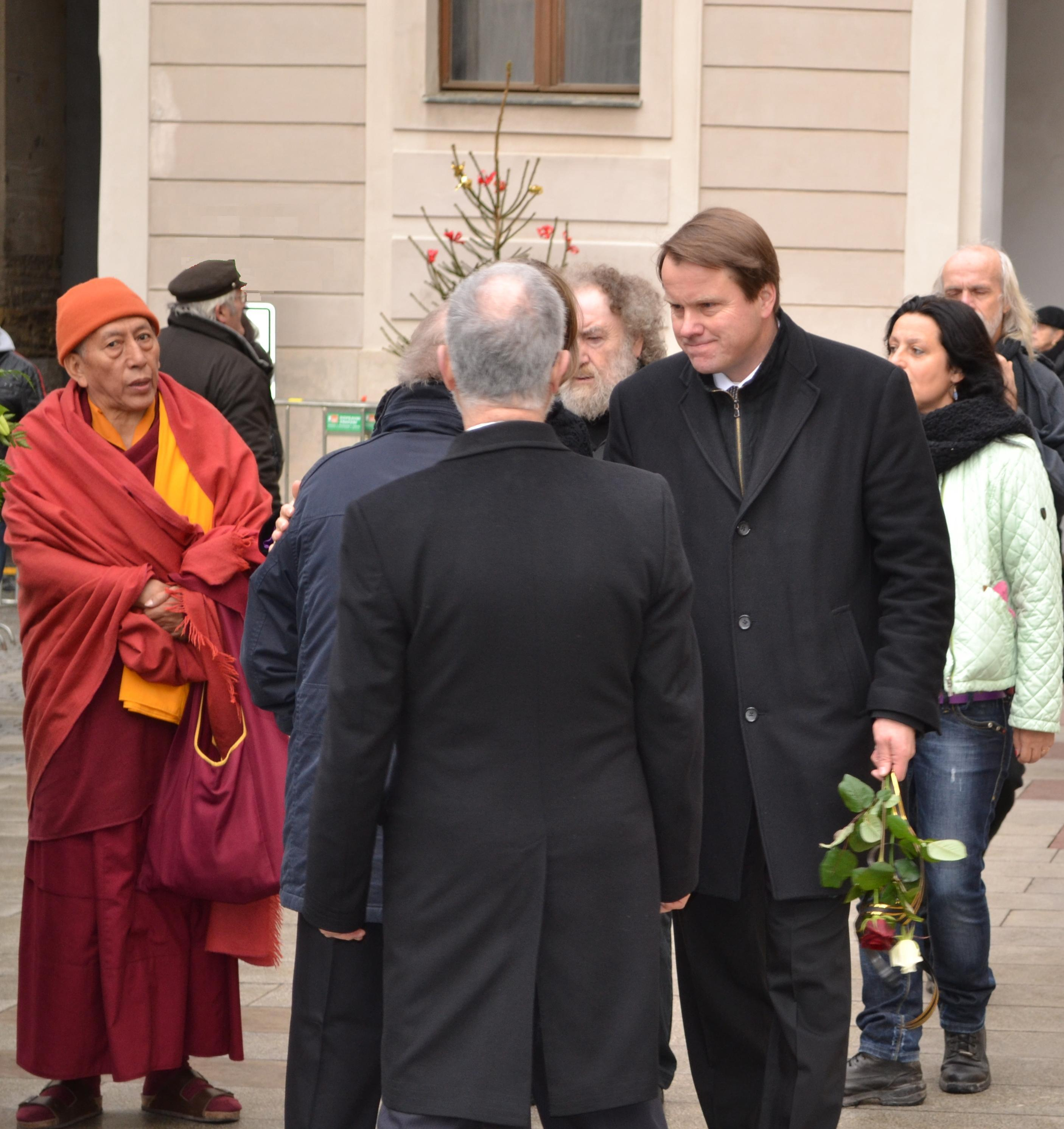 Professor Venerable Samdhong Rinpoche – Lobsang Tenzin (As Special Envoy of Dalai Lama, Prague 2011)